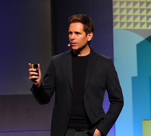 Image of speaker Chris Duffey